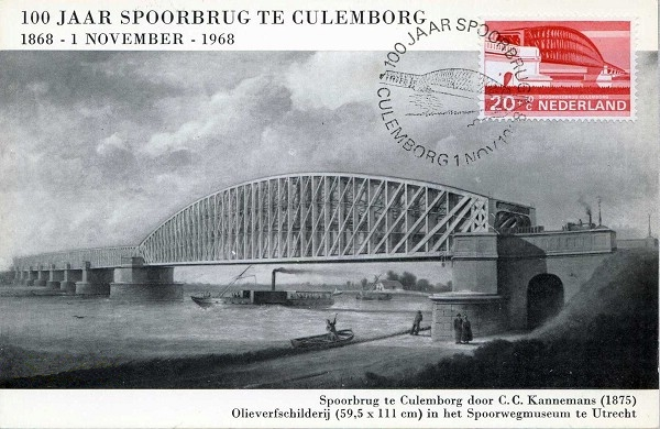 SpoorbrugTeCulemborg